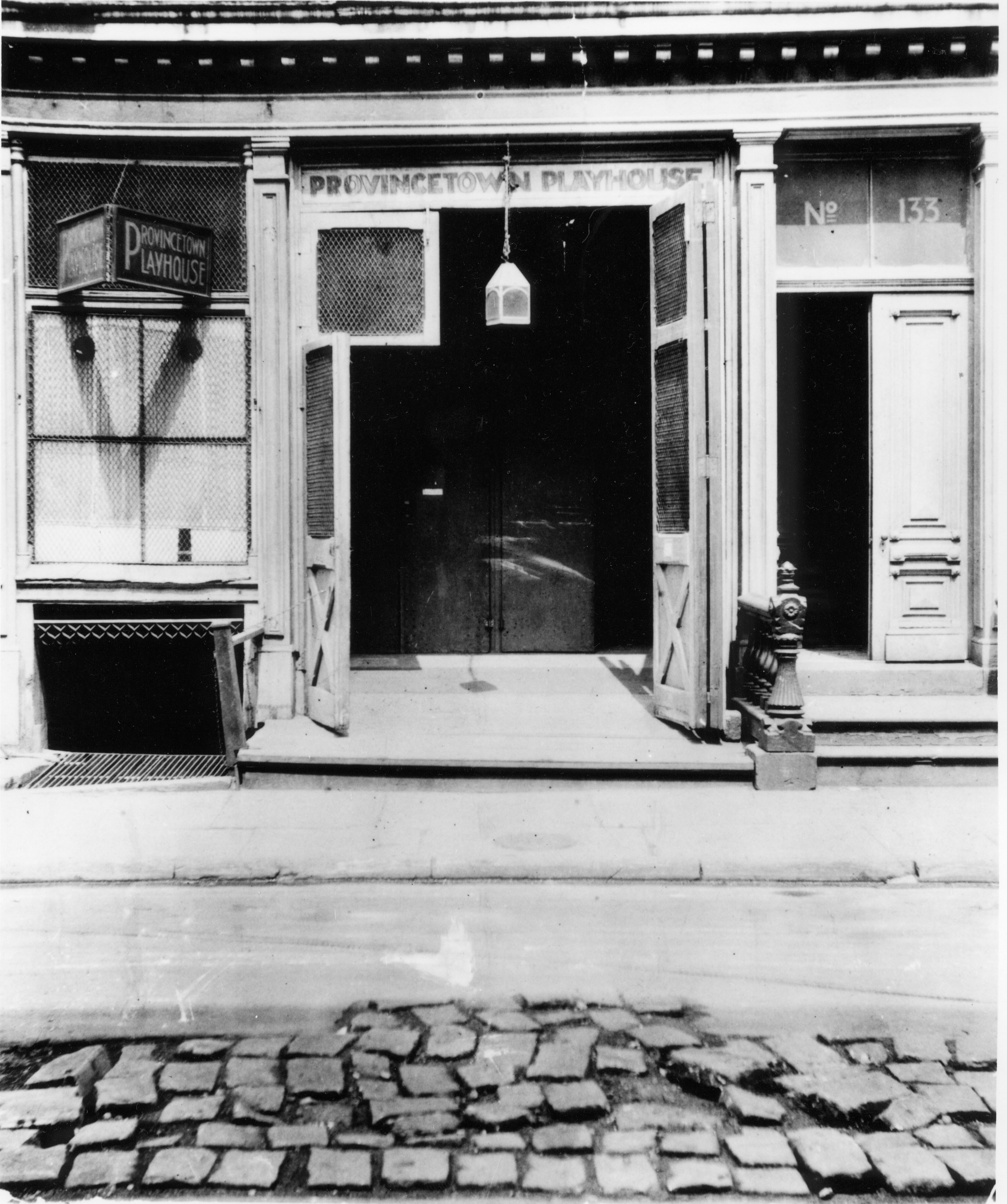 This is an exterior photo of the Provincetown Playhouse circa 1919.